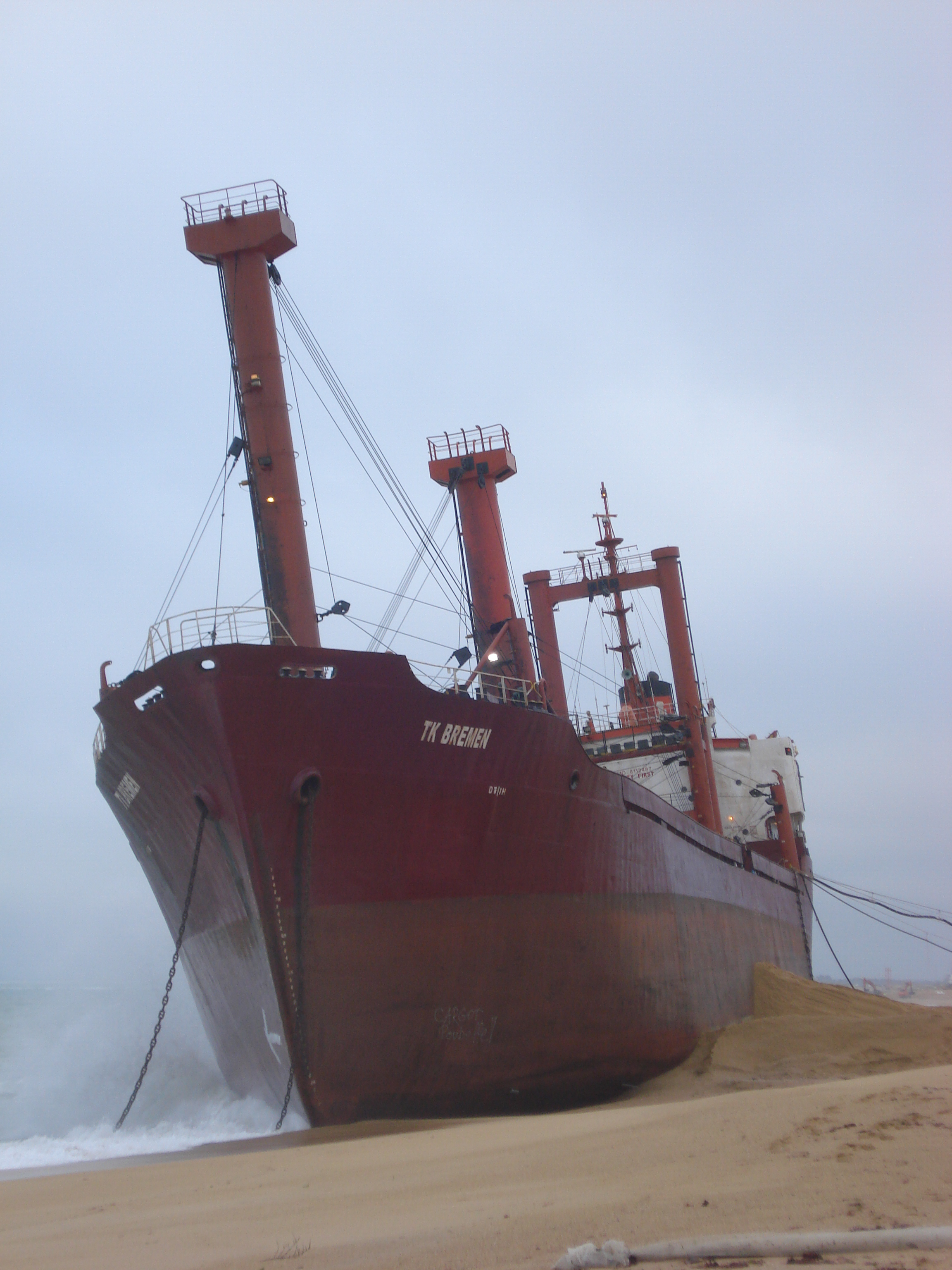 The cargo ship TK Bremen was blown aground at night December 16-17, 2011, next Erdeven (Morbihan, Bretagne, France